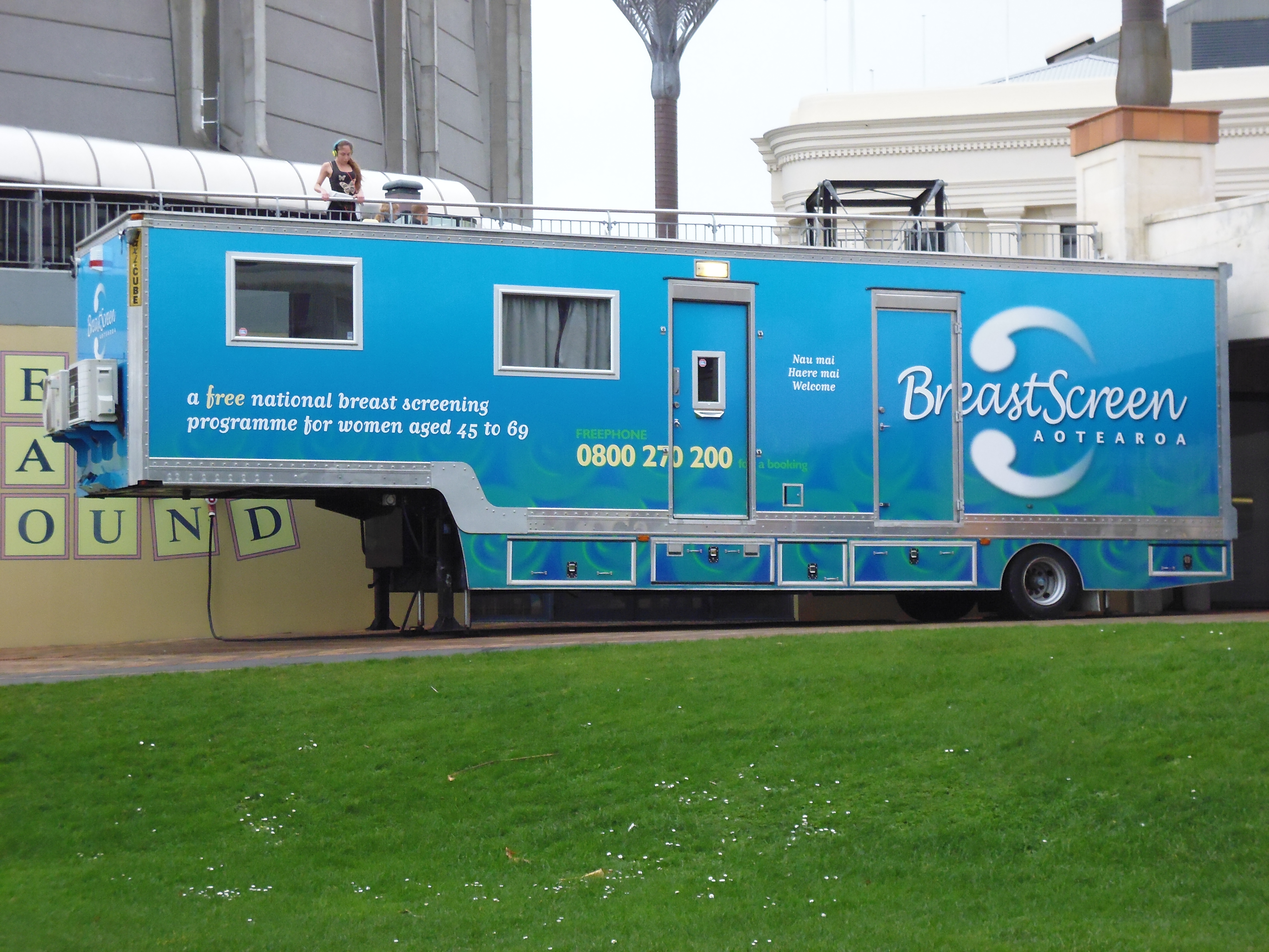 A mobile breast cancer screening unit in Wellington, New Zealand.